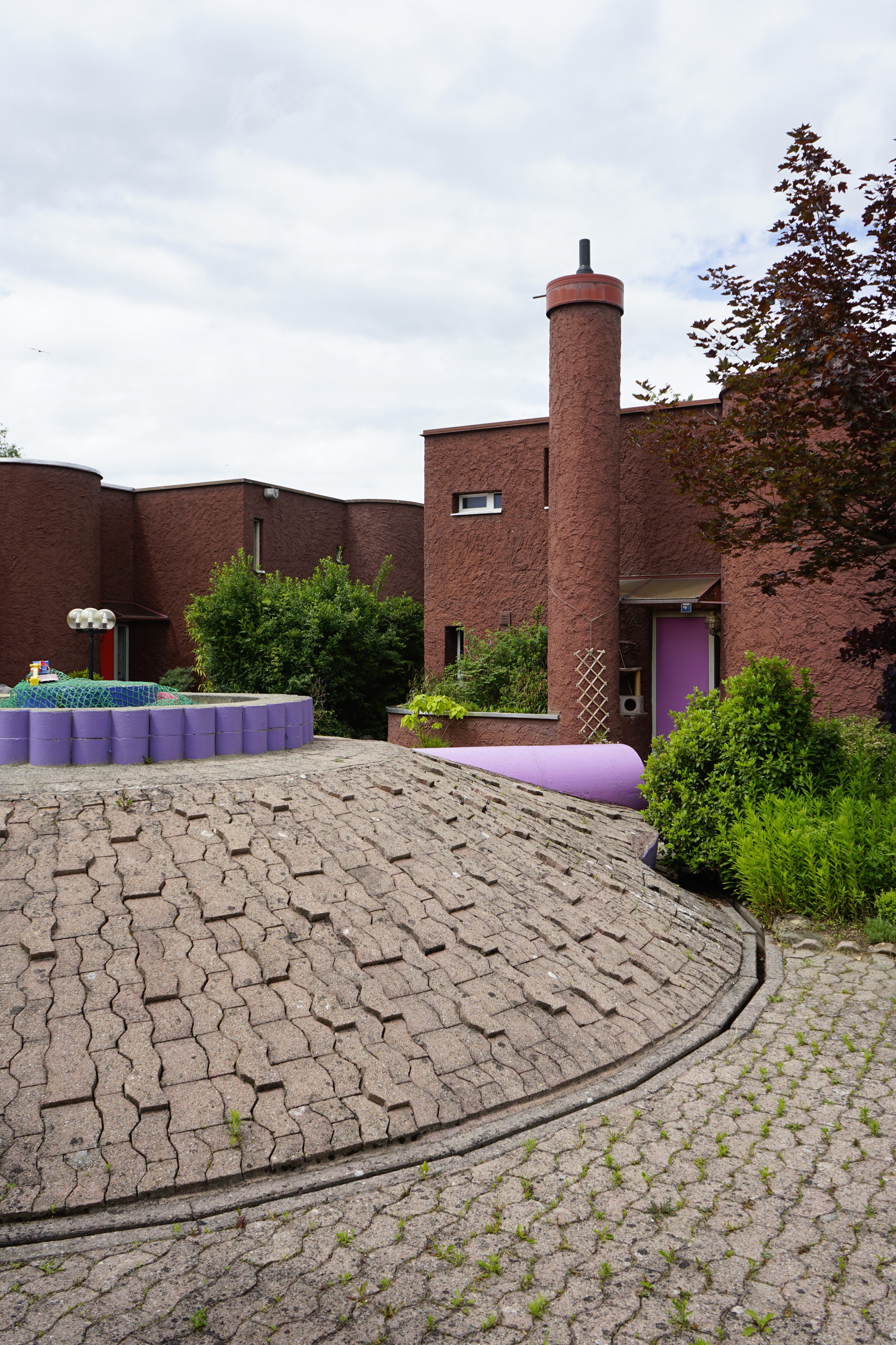 Reihenhaus in Rümlang, Zürich, Architekt: Manuel Pauli, 1970